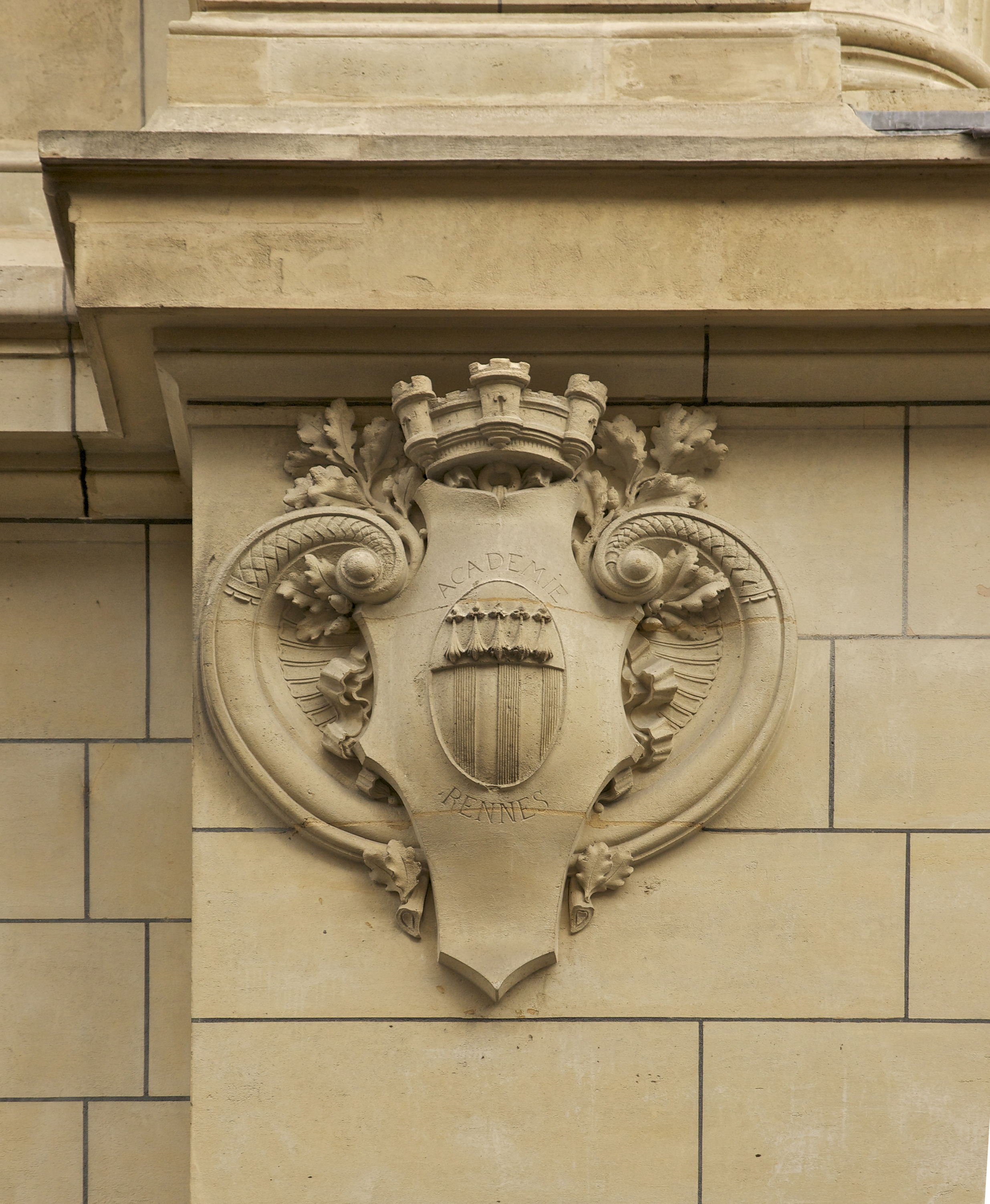 The CoA of Academy of Rennes, on a wall of the Sorbonne in Paris.